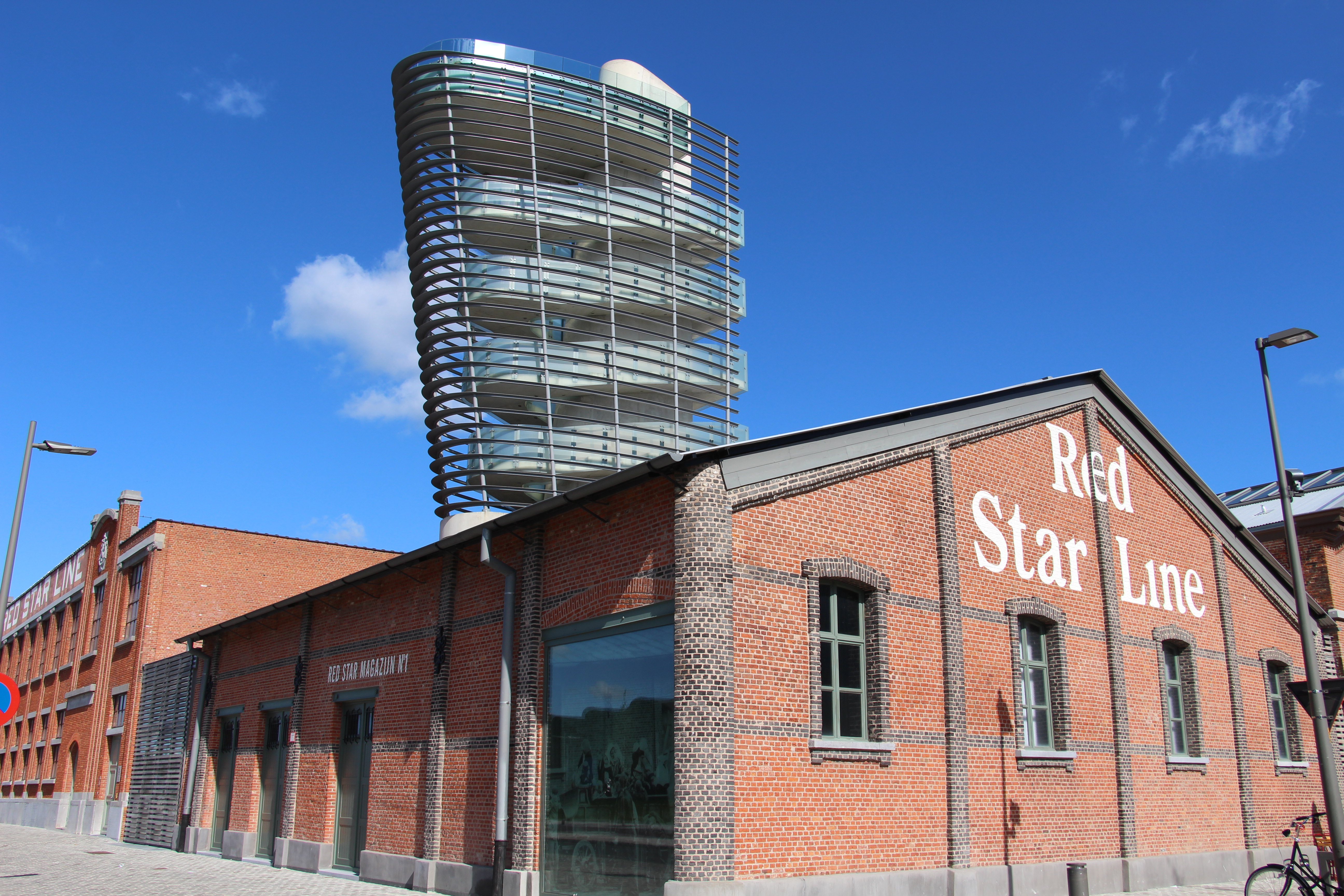 Montevideostraat Two million passengers boarded Red Star Line steamers and crossed the ocean from Antwerp to North America. Their story, that of the shipping company which transported them and that of the city and the harbour from which they left are central elements in the museum’s main exhibition. The new Red Star Line Museum is made up of four buildings. Each of them forms a separate architectural entity. There are three historic buildings: De Loods (a few years before World War I), the corner building (1894) and the main building (1922) and one new building: the Tower (2013). The American architectural firm Beyer Blinder Belle Architects and Planners was responsible for restoring the buildings. They also signed on for designing the museum (2013)